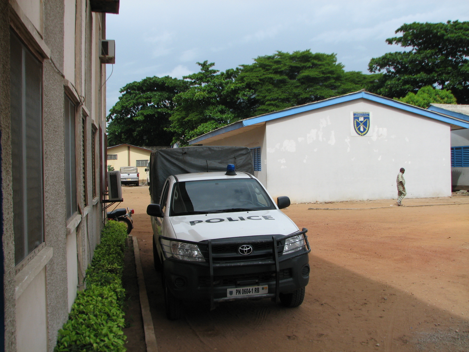 Outside the administrative offices of the Benin national police school.